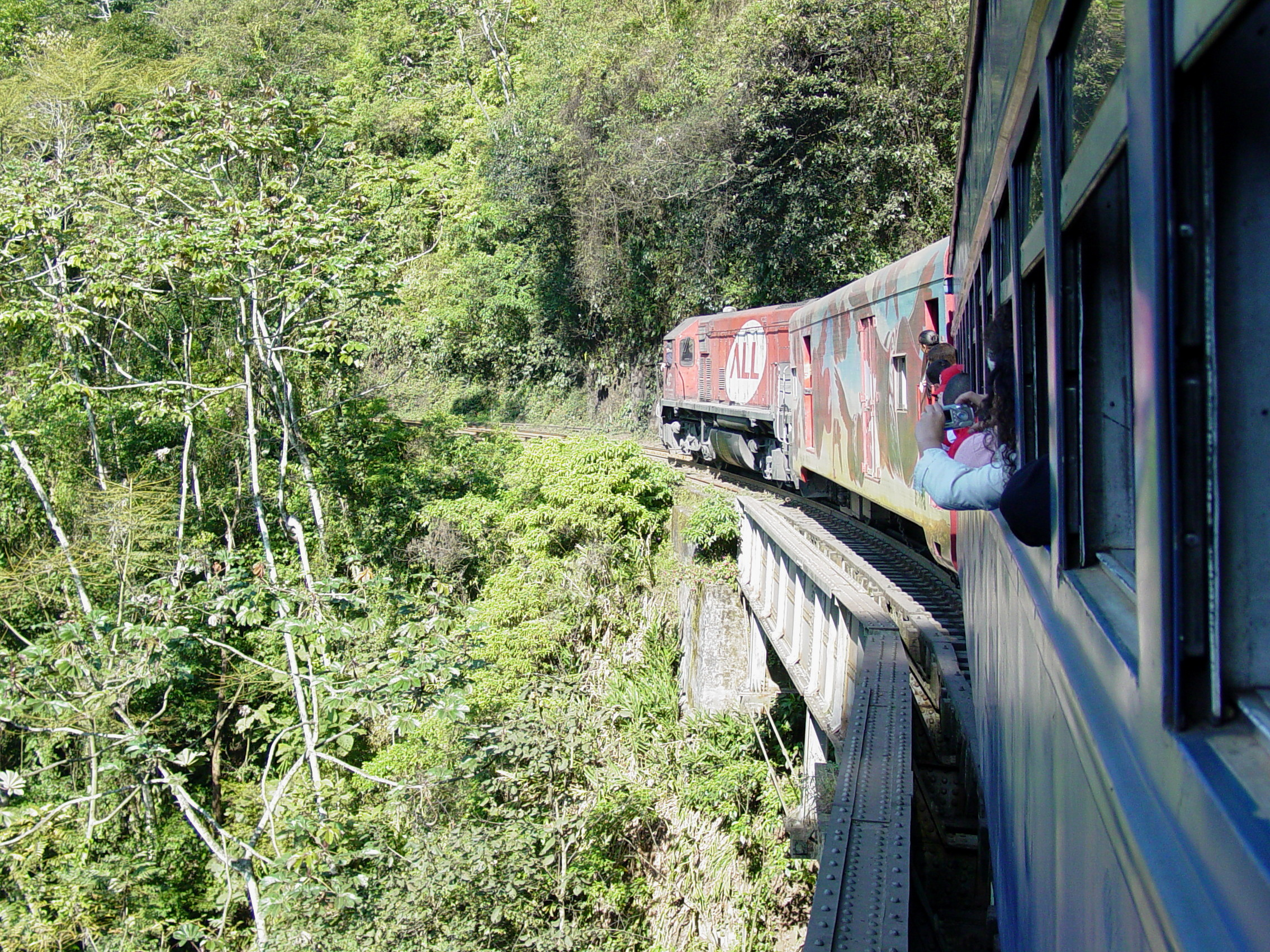 Train ride from Curitiba to Morretes, Brazil. July 2006.